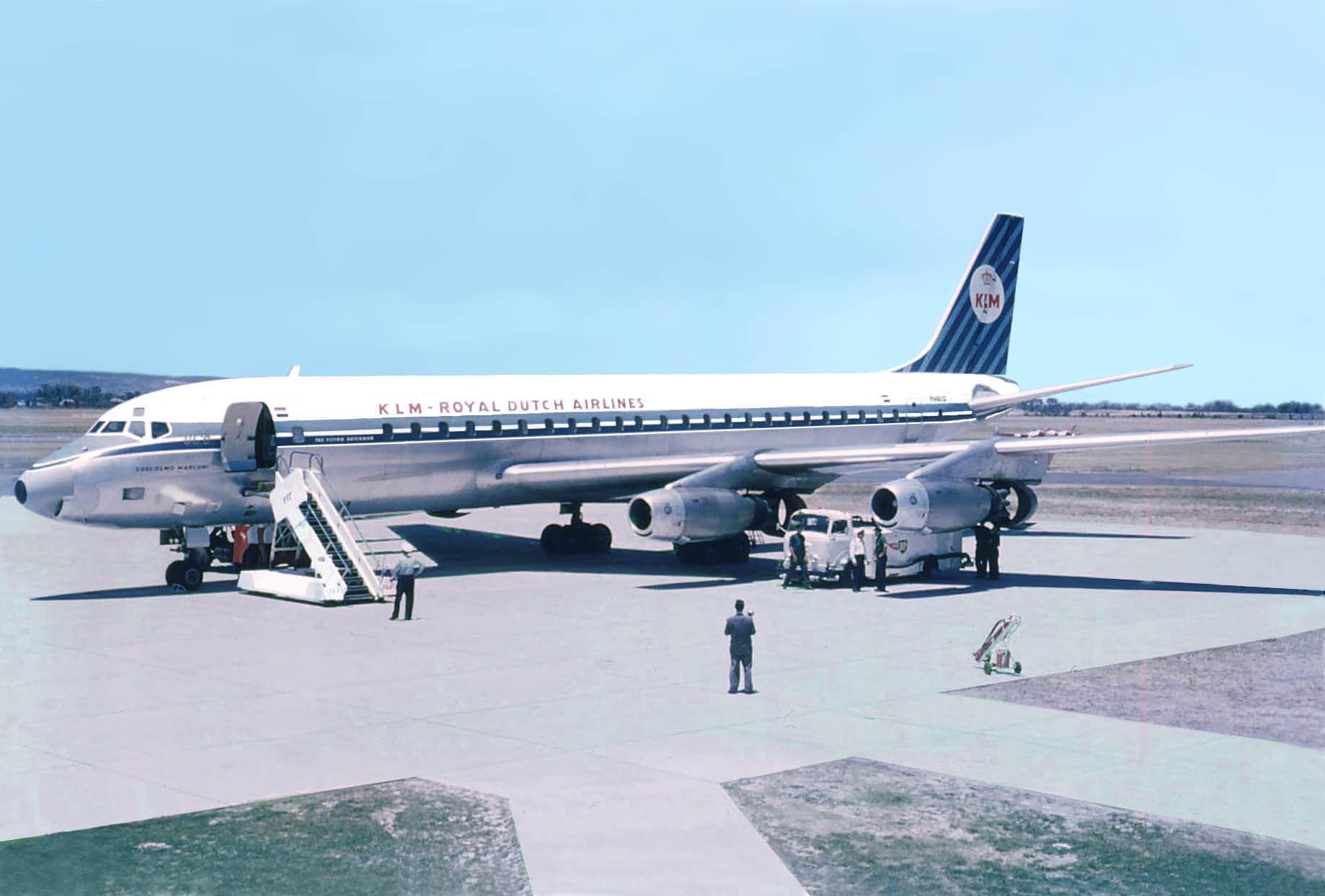 KLM Douglas DC-8-32 (PH-DCG) at Perth Airport. Special charter flight carrying passengers from the P&O liner SS Canberra that experienced a shipboard fire in the Mediterranean on its voyage to Australia.